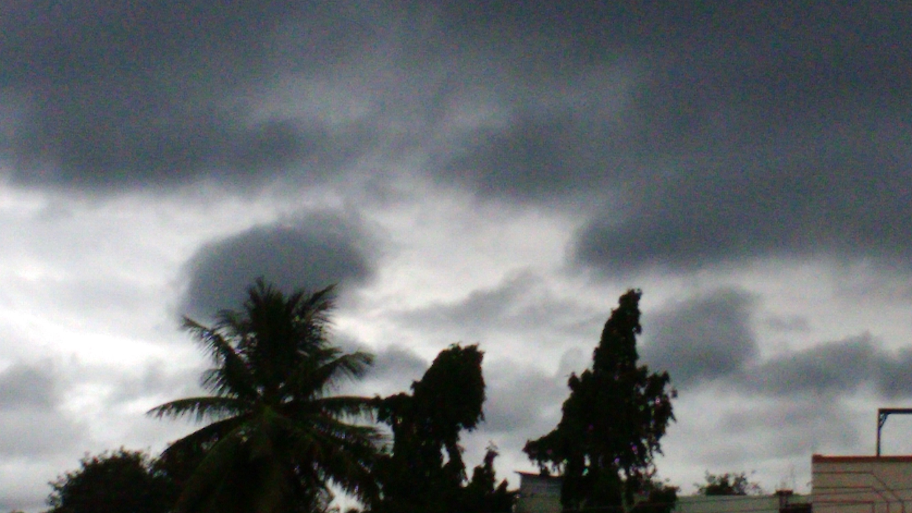 ☔ Black Clouds before Rain ☔